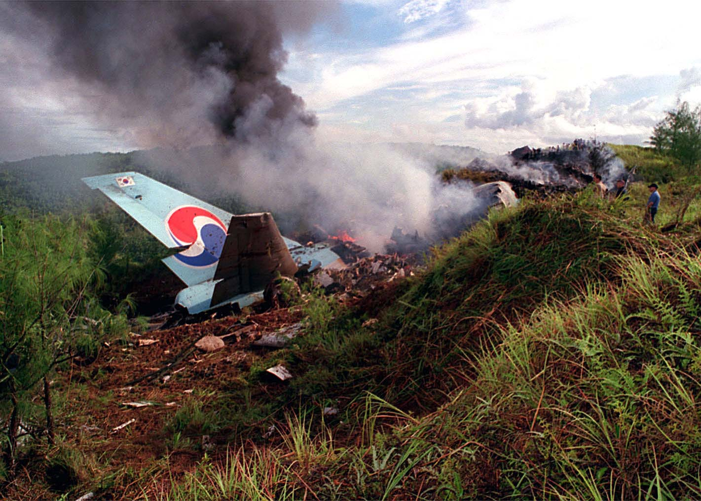 The tail section of Korean Airlines flight 801 stands graphically visible at the crash site in the early morning hours of Aug. 6 1997 U.S. Navy, U.S. Air Force, U.S. Coast Guard and numerous civilian rescue teams, currently assisting in the search and rescue efforts of KAL flight 801, evacuated survivors from the crash site during the early morning of August 6th.